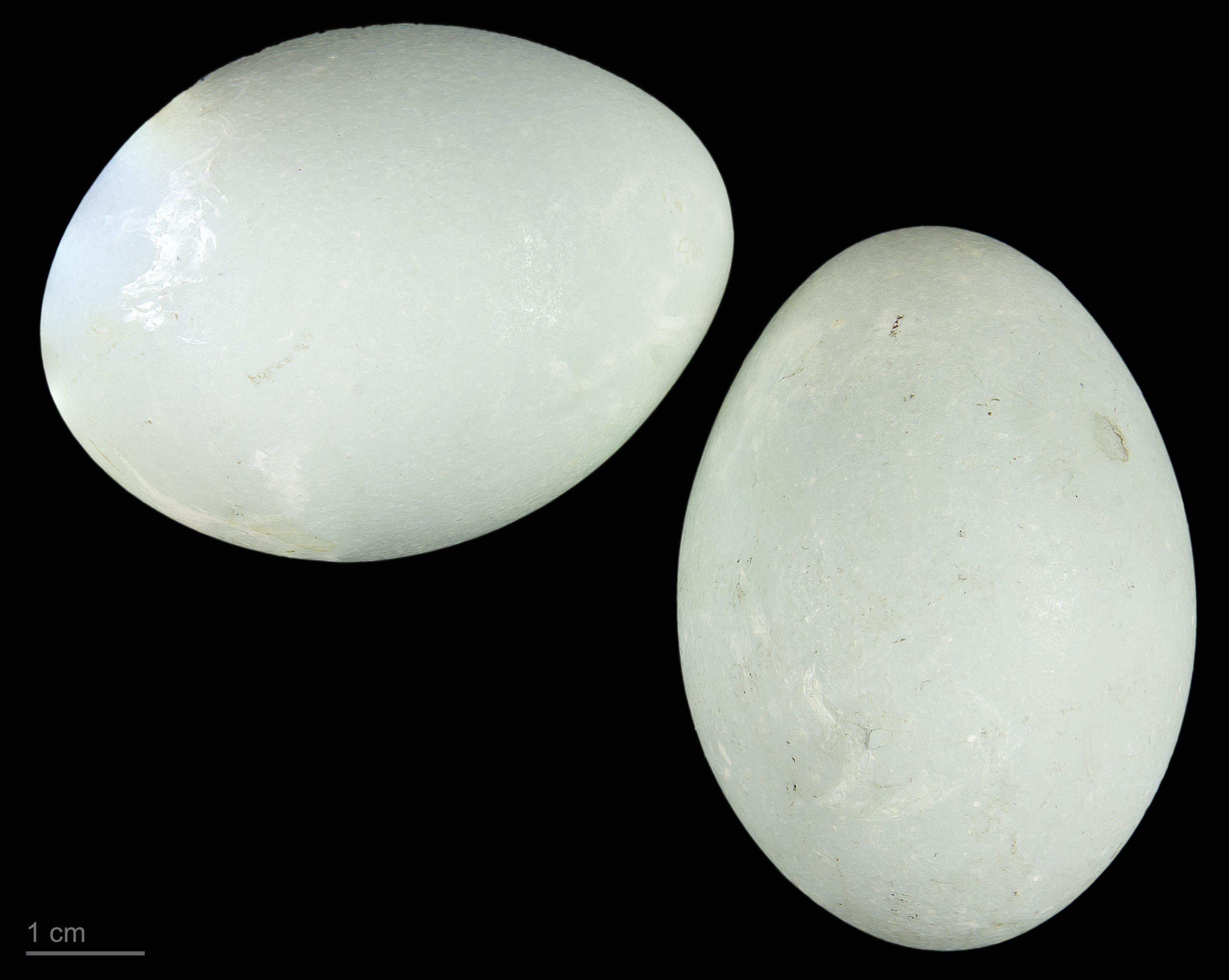 Eggs of purple heron Two specimens of the same spawn ; collection of Jacques Perrin de Brichambaut.